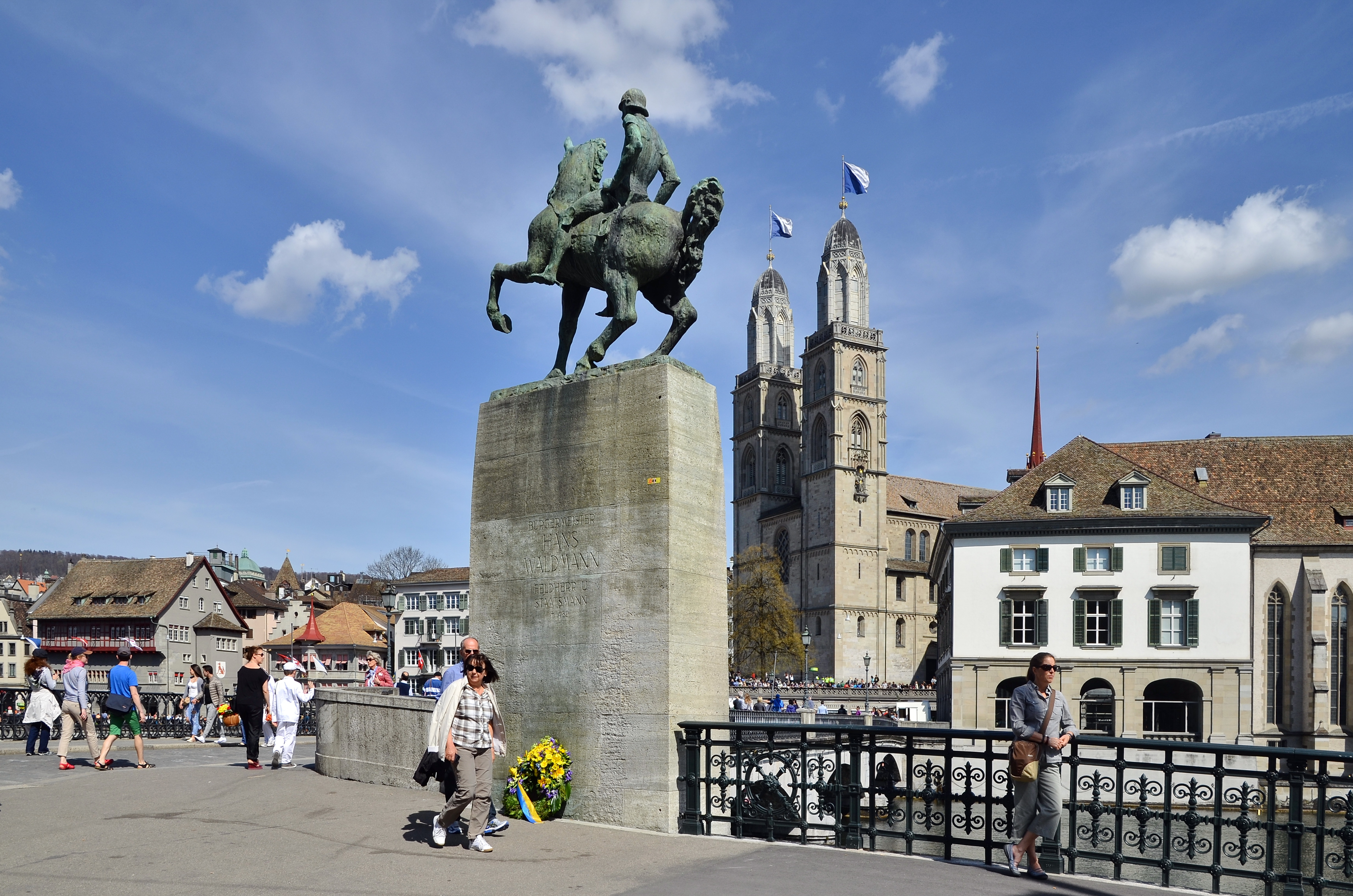 Equestrian statue of Hans Waldmann (* 1435; † 1489) at Münsterbrücke respectively Münsterhof in Zürich (Switzerland) : Wreath-laying ceremony by the members of the Kämbel guild on occasion of Sechseläuten.